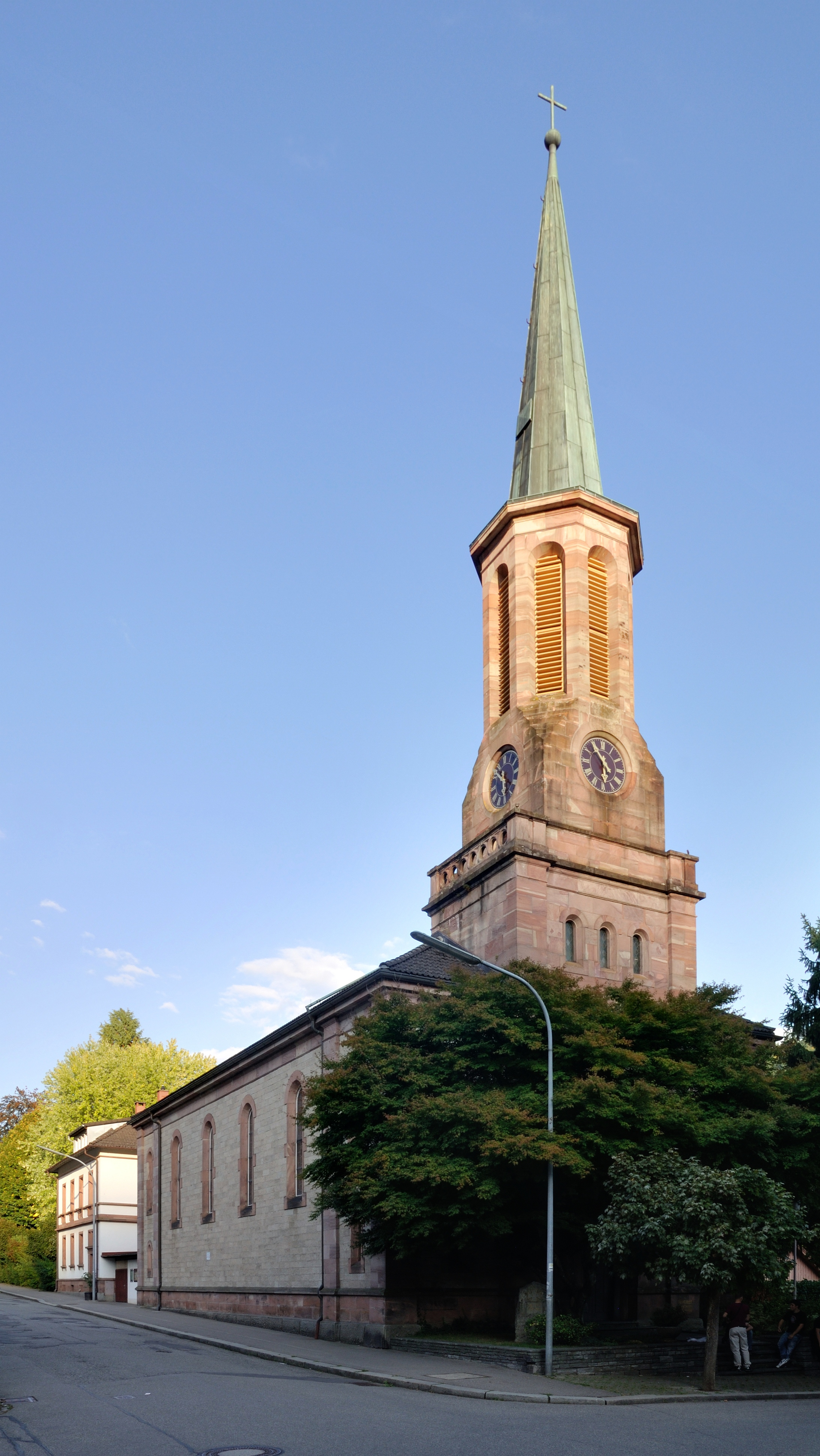 Zell: Protestant Church